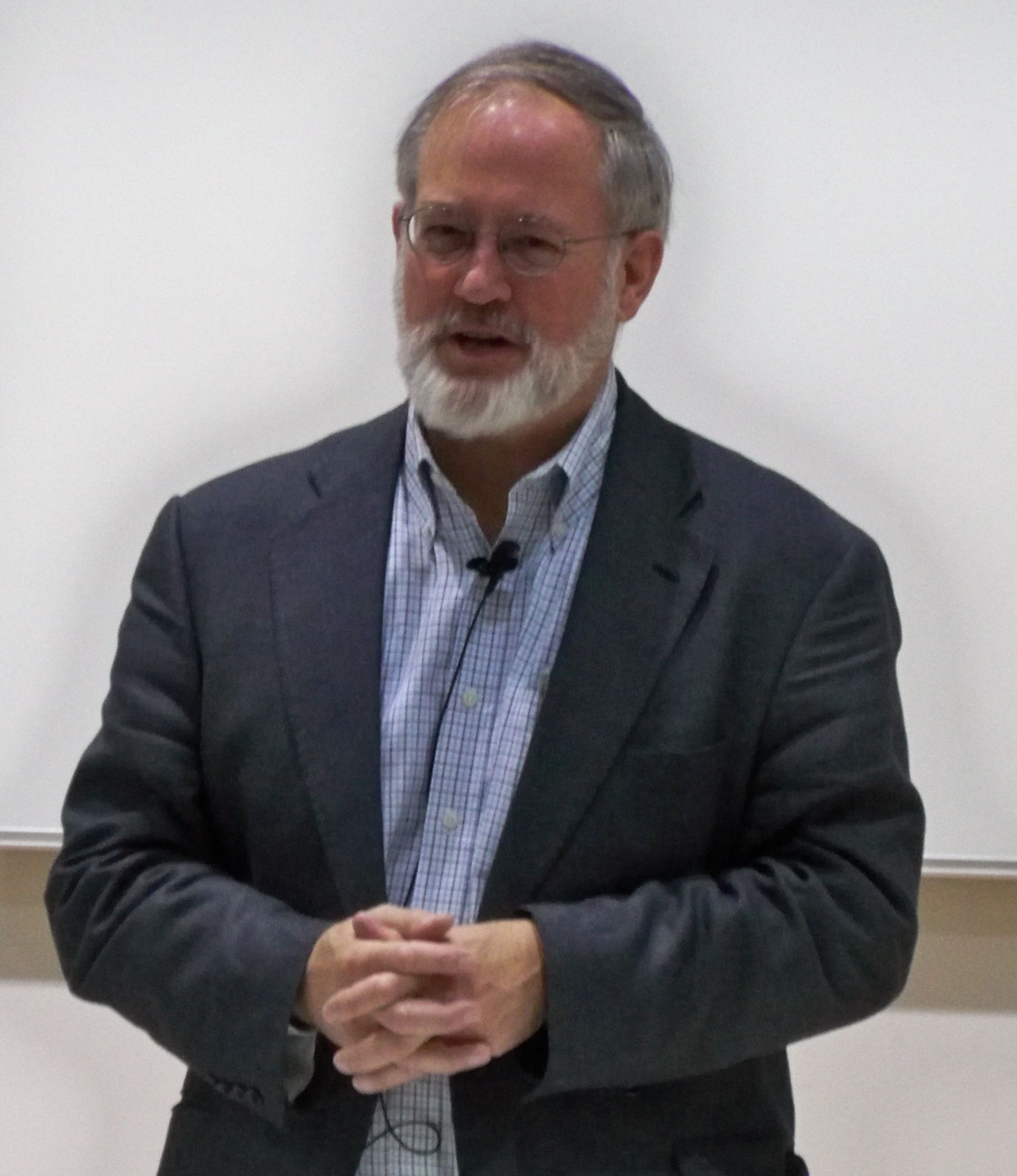 Prof. Randolph M. Nesse, MD. at LV Workshop: Evolutionary Biology and Related Topics in Warsaw, Poland.